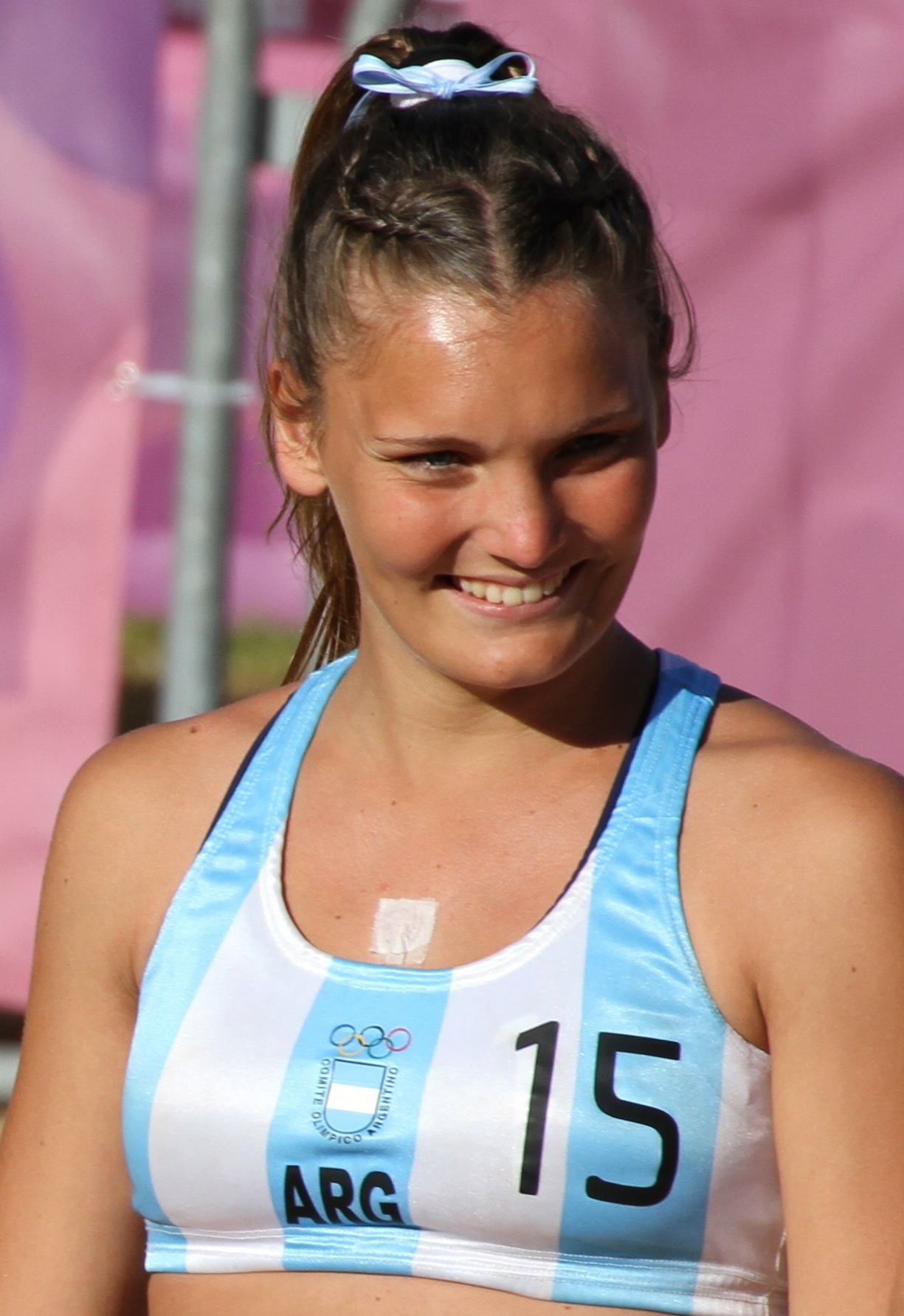 Beach handball at the 2018 Summer Youth Olympics at 9 October 2018 – Girls Preliminary Round Group B – Argentina-Hing Kong 2:0